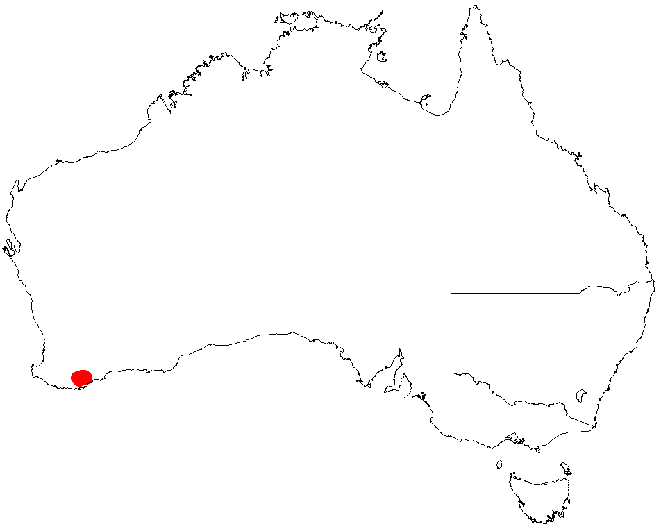 Acacia veronica occurrence data from Australasia Virtual Herbarium downloaded from on 8 December 2018